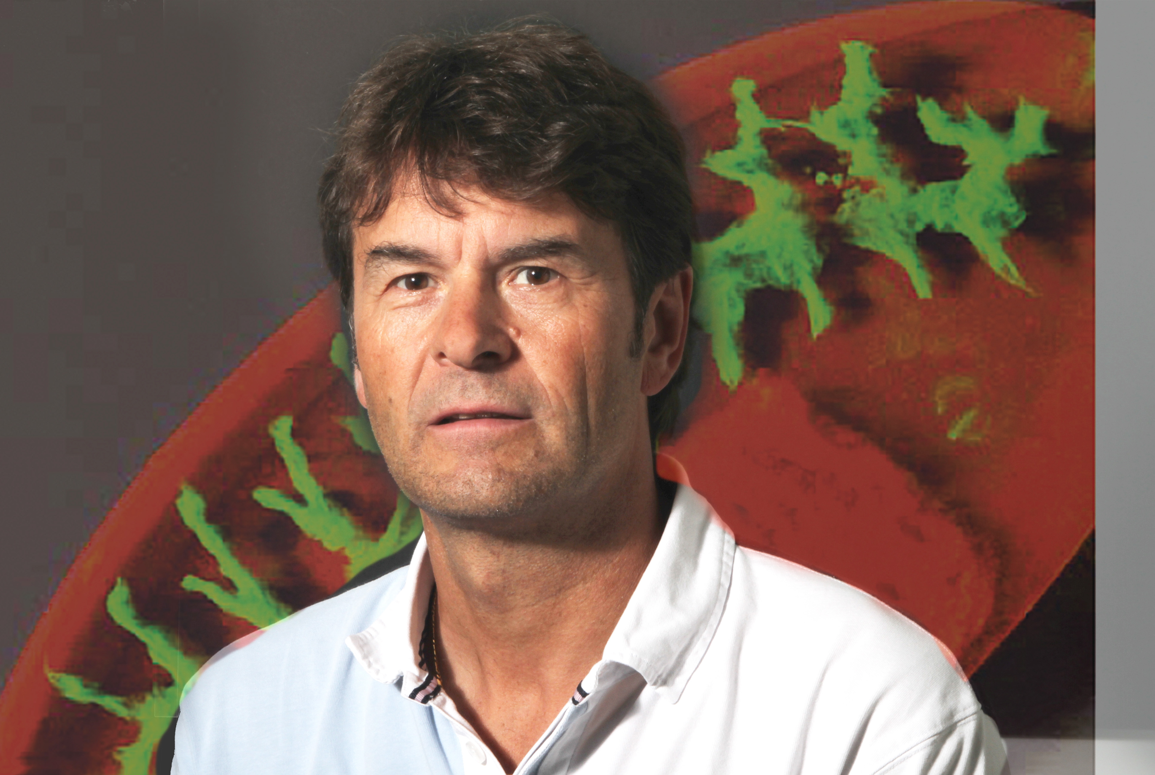 Professor Markus Affolter, Biozentrum University of Basel Switzerland